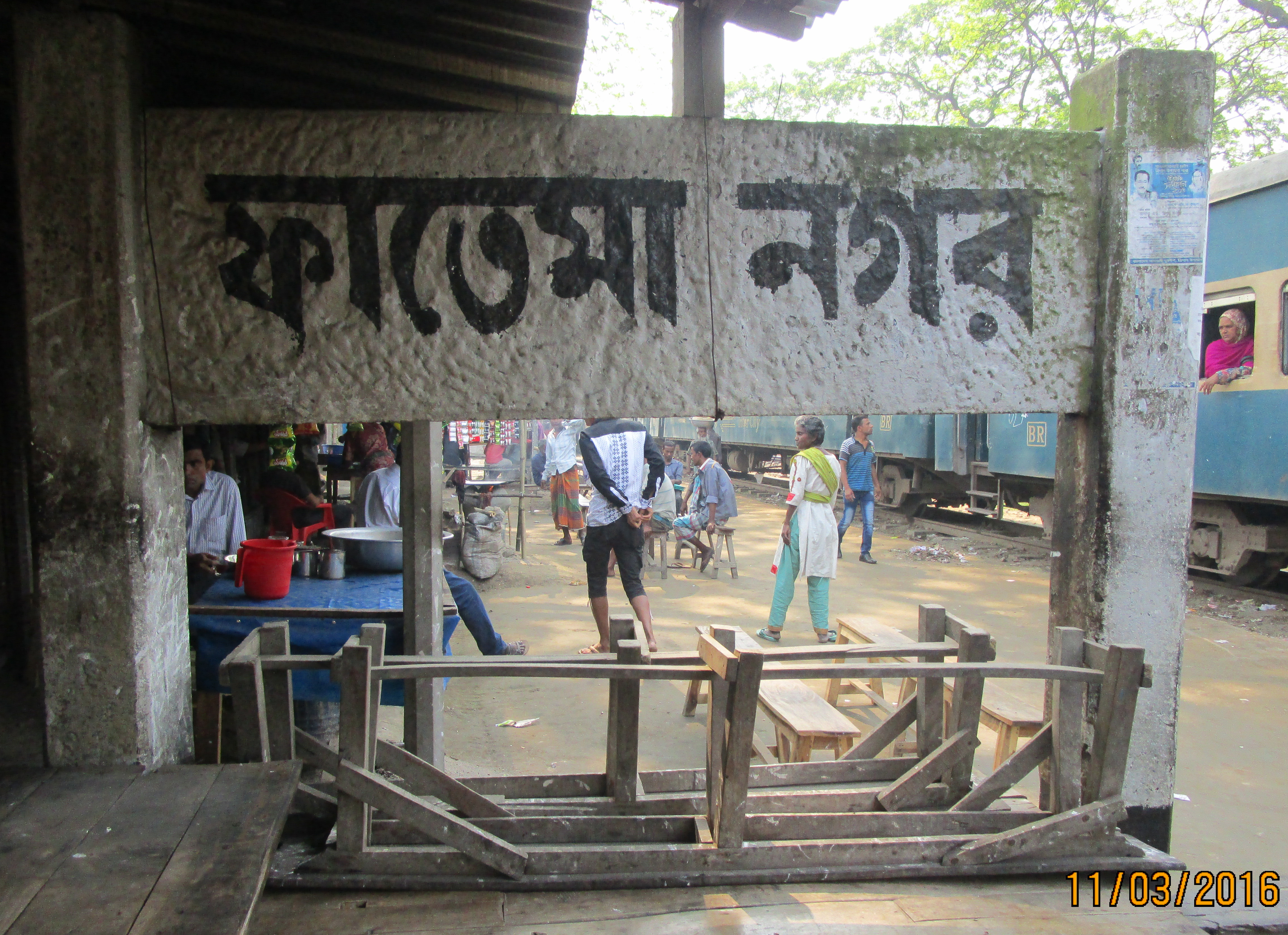 Fatemanagar railway station